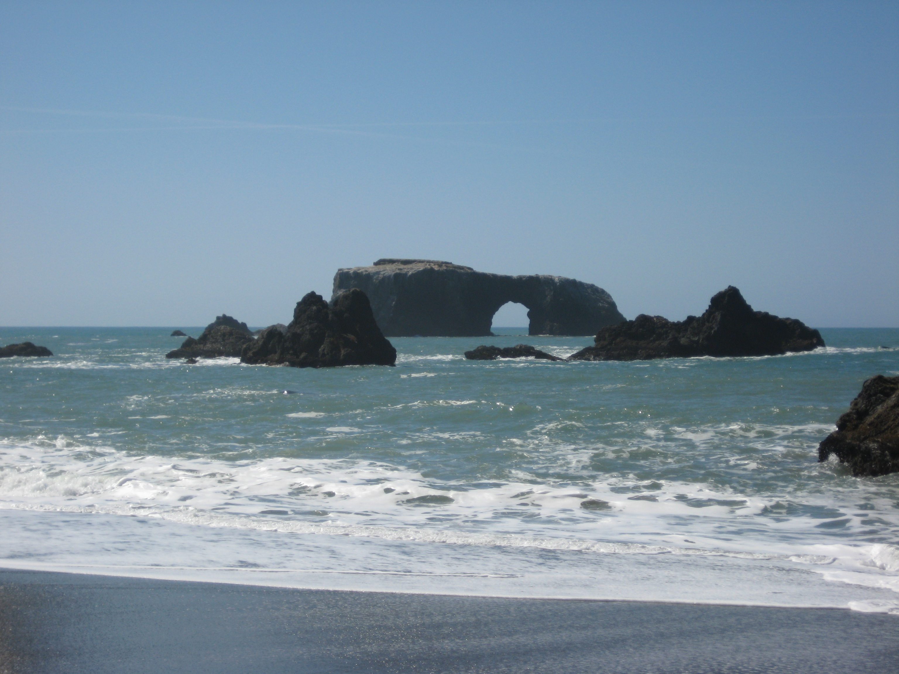 Beach of Jenner, California